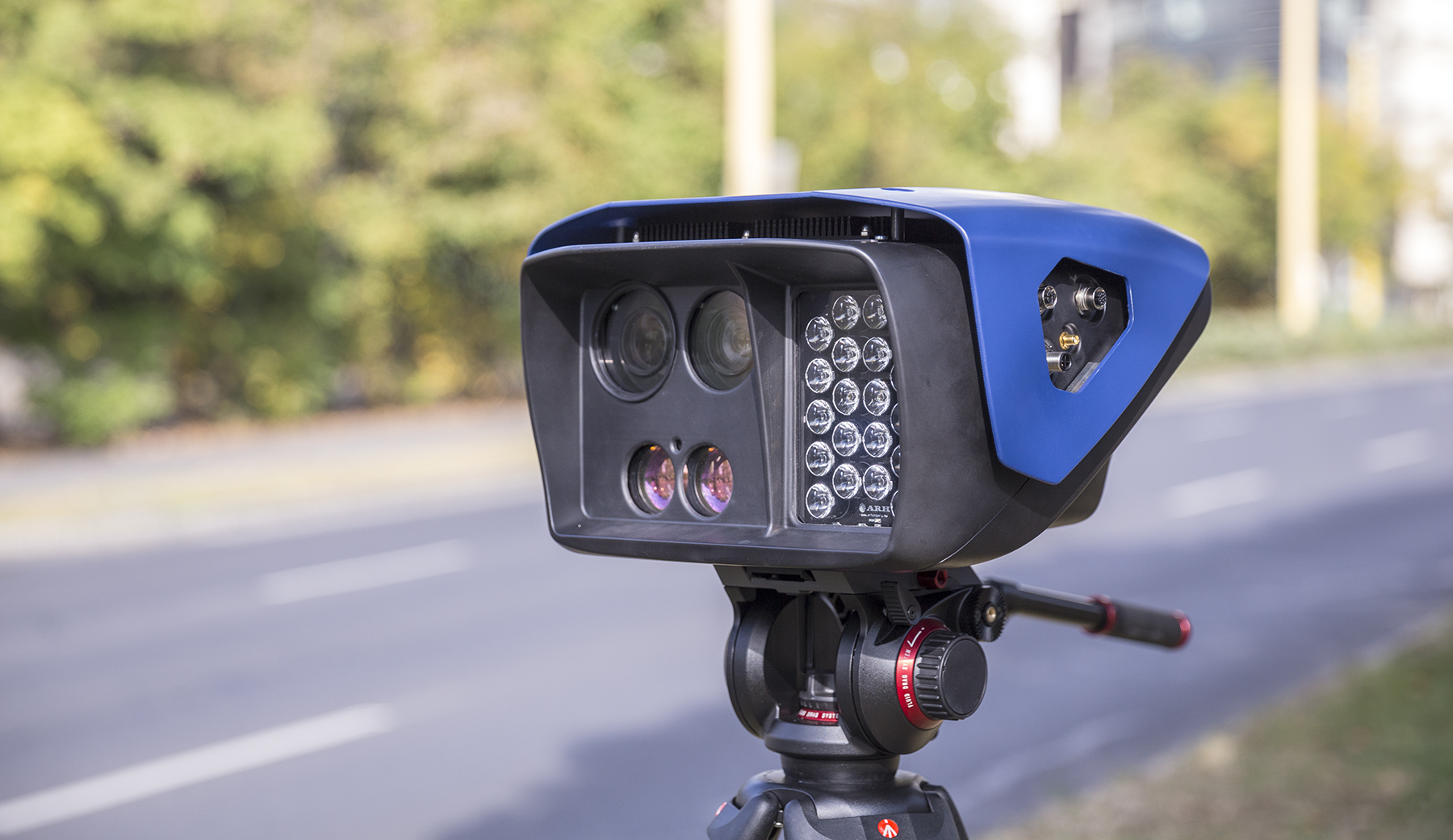 ARH CAM-S1 portable traffic monitoring device